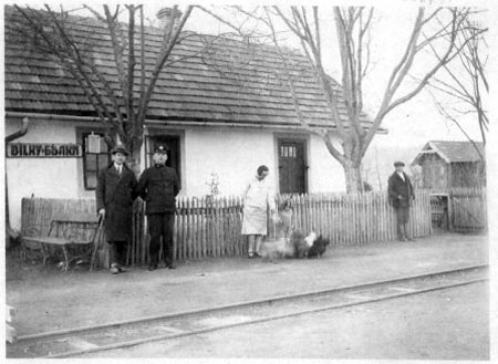 Bilky